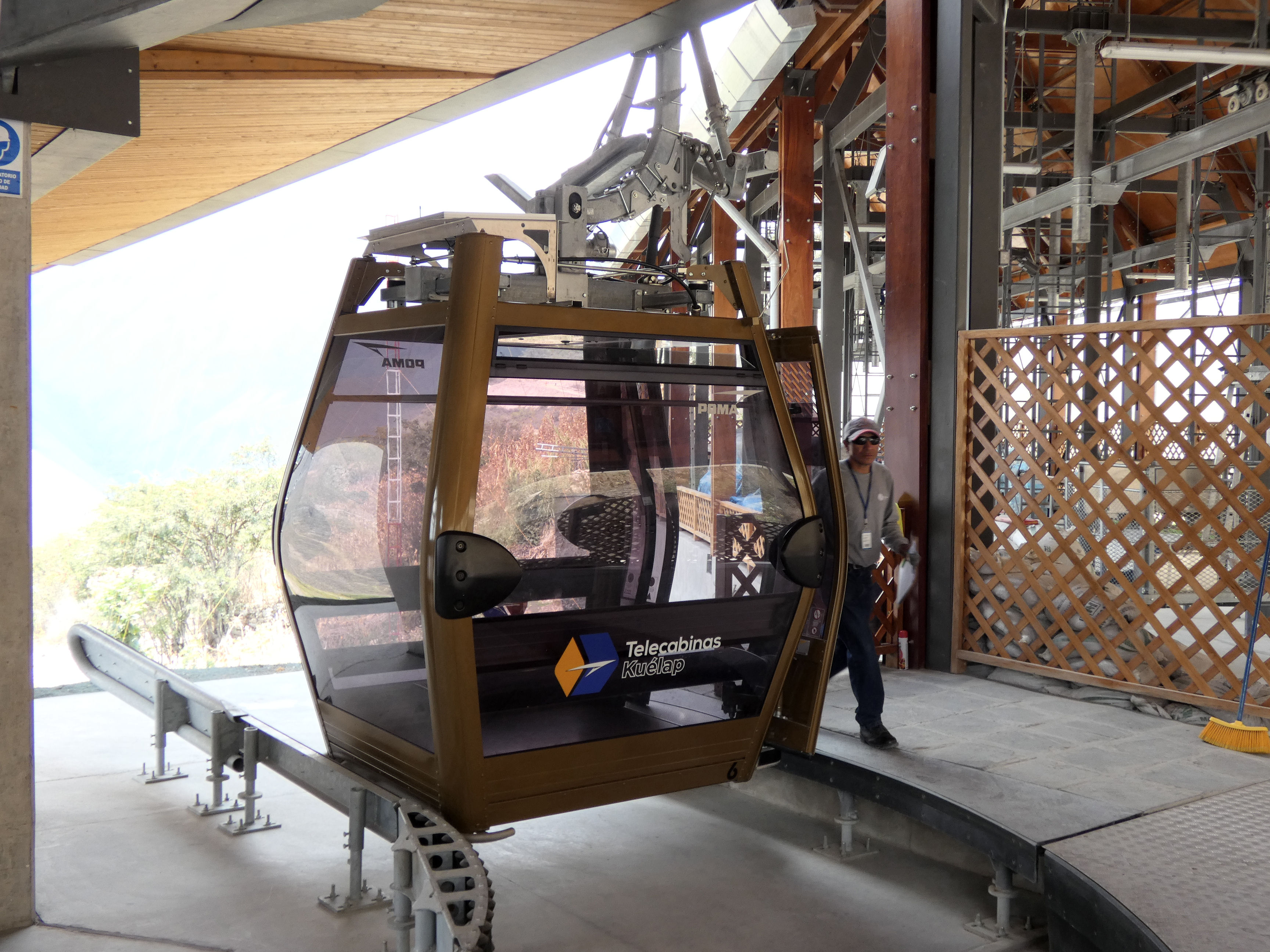 Departure platform of the aerial tramway to the fortress Kuelap, Tingo district, Amazonas Region, Peru